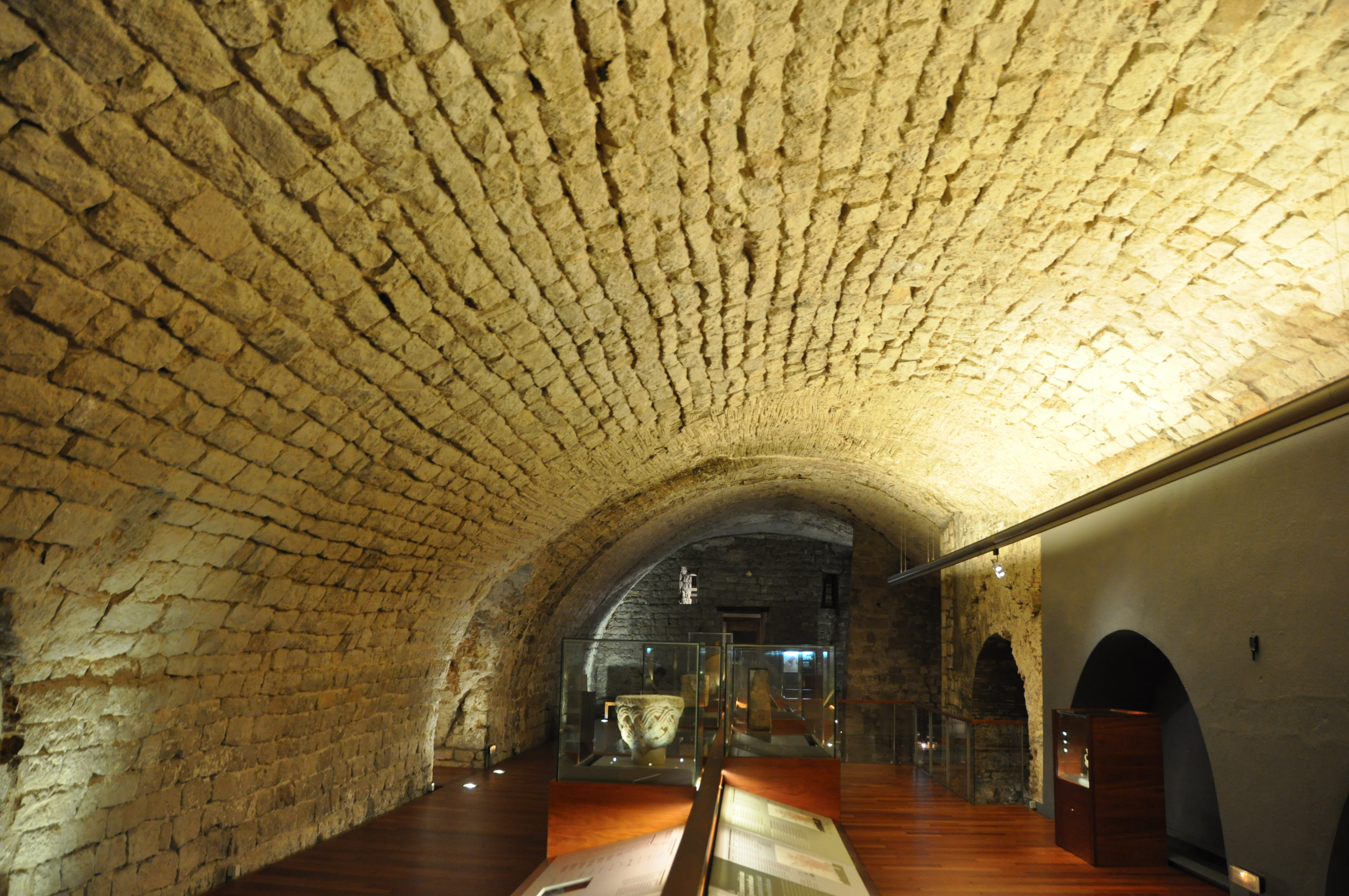 MUHBA Barcelona arcaeological underground romanesque vaults of the royal palace